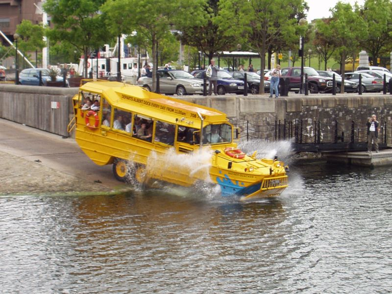 A Yellow Duckmarine (formerly Liverpool Duck Tours) amphibious tour DUKW, registration number YSJ 668, enters the Salthouse Dock, adjacent to the Albert Dock, in Liverpool. This is referred to by the tour operator as the "splashdown".